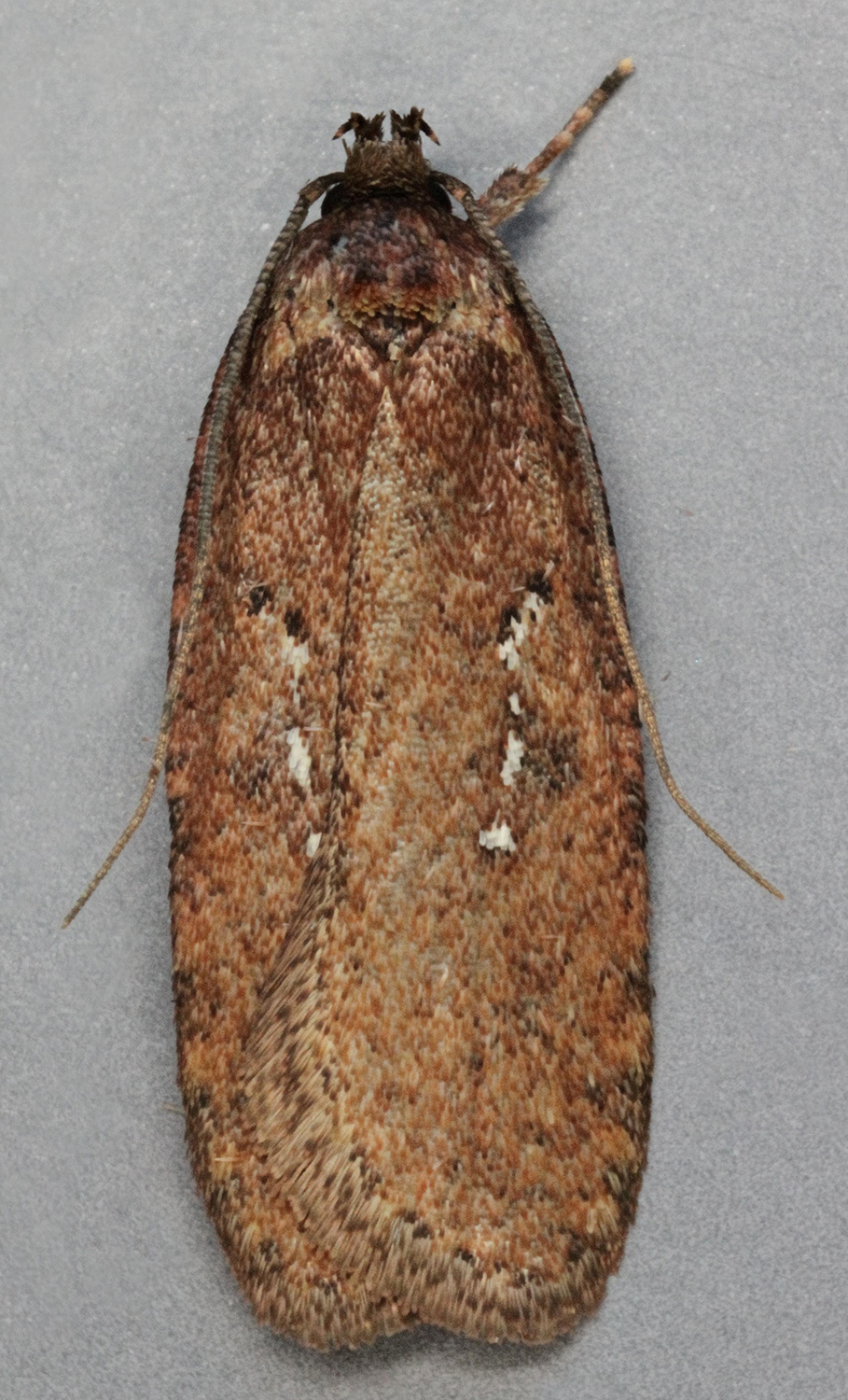 Agonopterix ciliella, Trawscoed, North Wales, Feb 2014